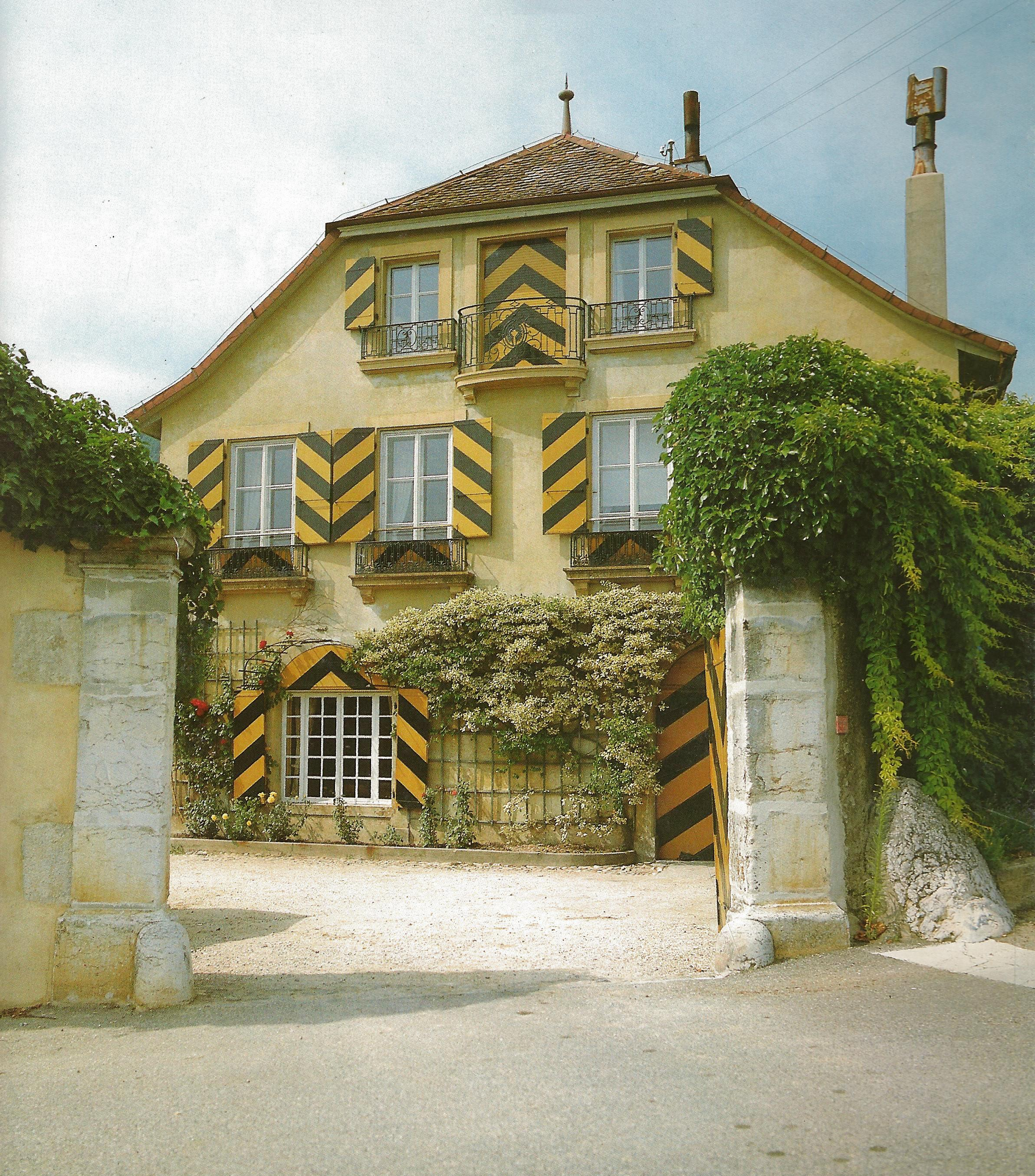 Belletruche